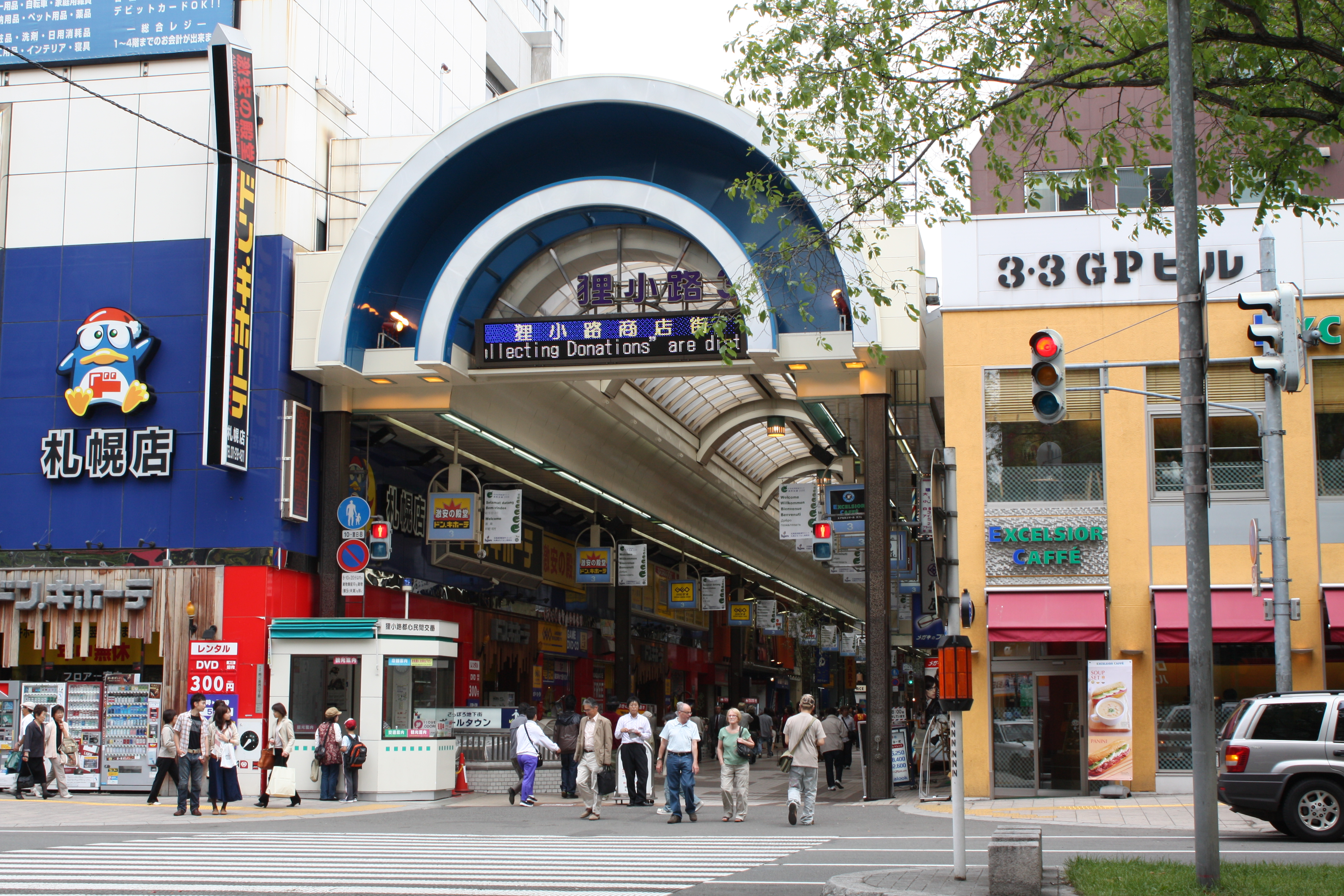 Tanukikoji Shopping Street (Shōtengai) in Sapporo, Hokkaido, Japan